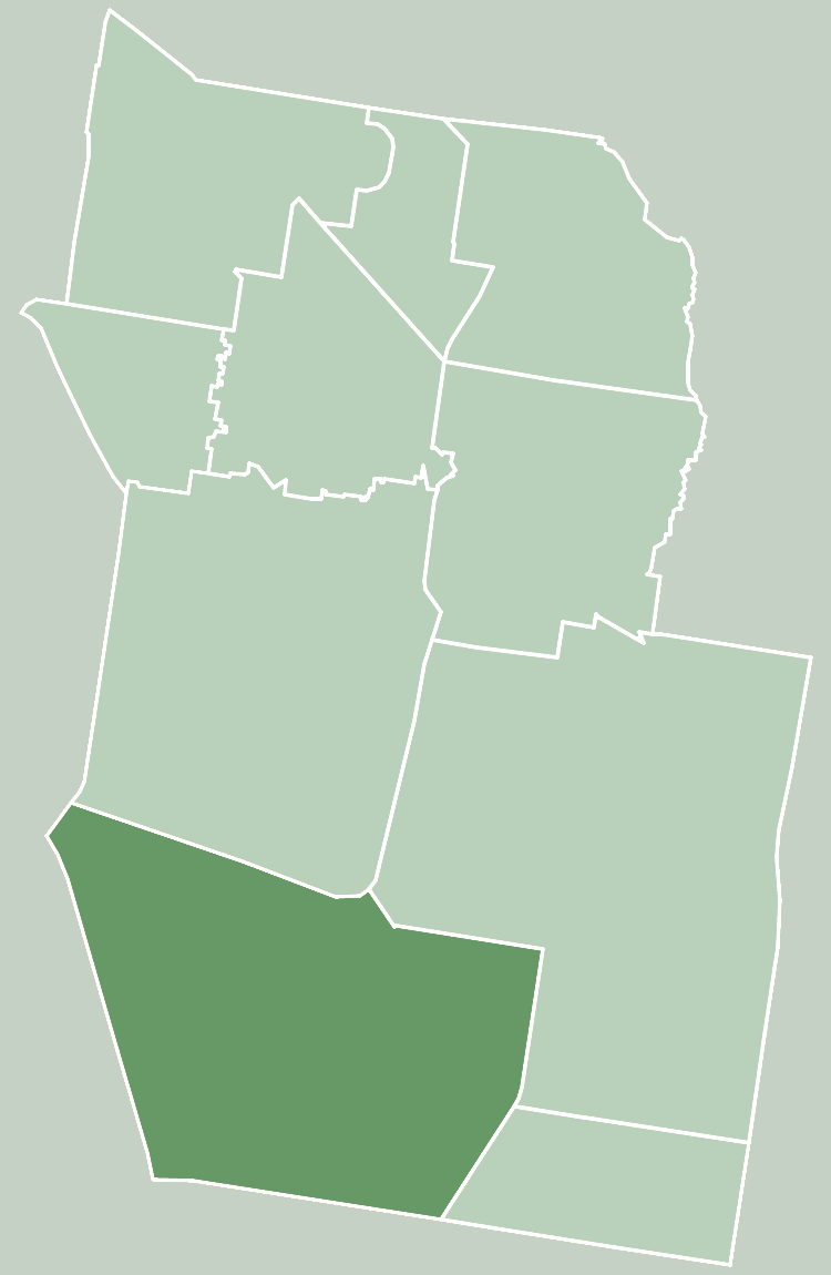 Shows the suburb of Bangholme in relation to the City of Greater Dandenong. It is created with the same style as